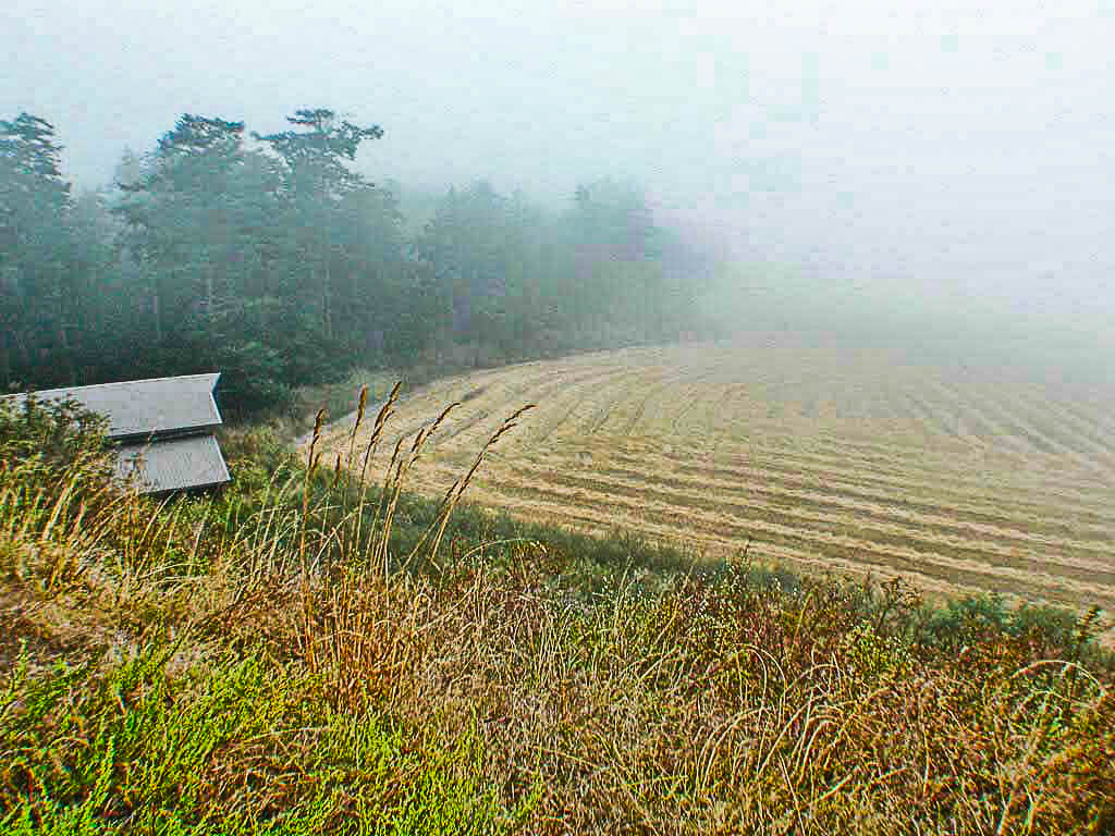 Whidbey Island: On the Bluff Trail near Perego's Lagoon